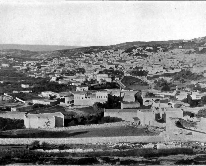 view of Nazarath 1912